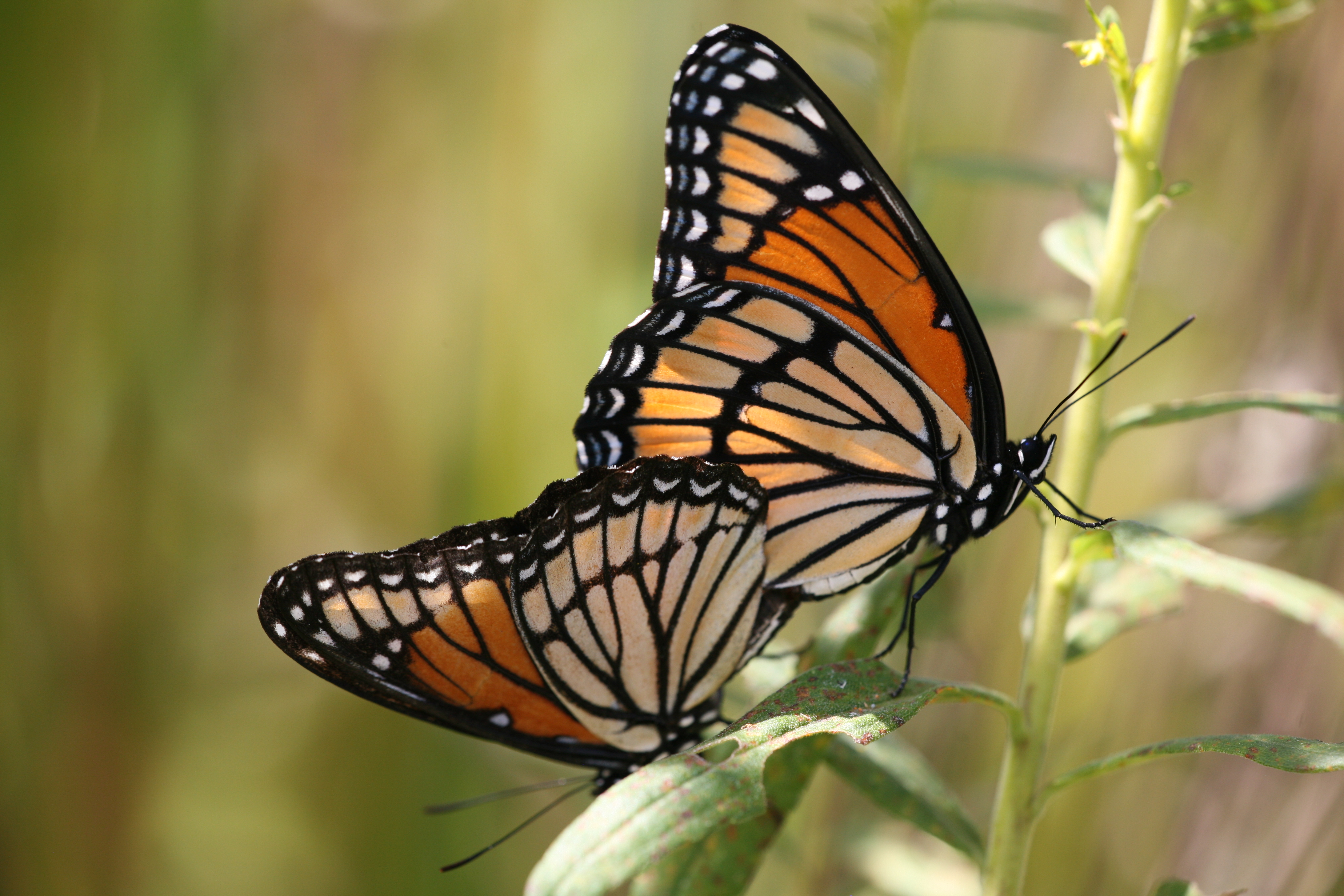 Viceroy Butterflies mating